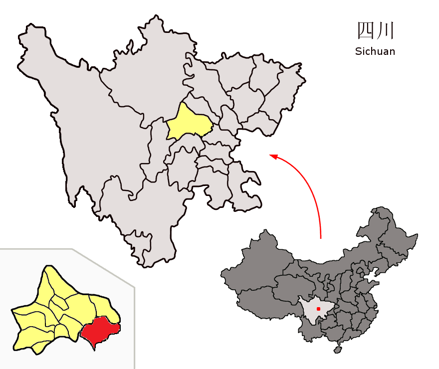 Location of Jianyang City (pink) and Ziyang Prefecture (yellow) within Sichuan province of China Map drawn in october 2007 using various sources, mainly : Sichuan province administrative regions GIS data: 1:1M, County level, 1990 Sichuan Counties map from